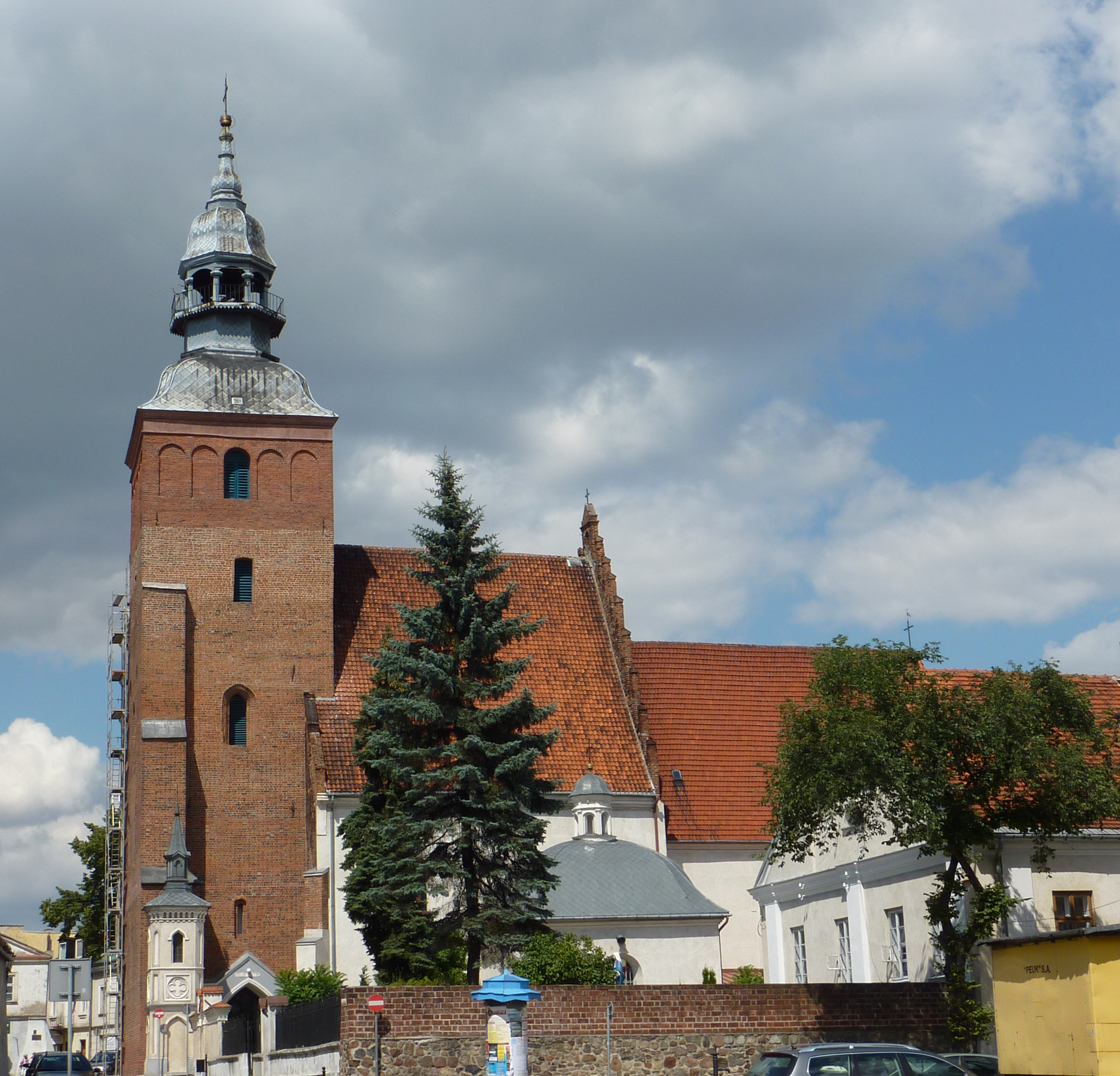 Saint James church in Piotrków Trybunalski view